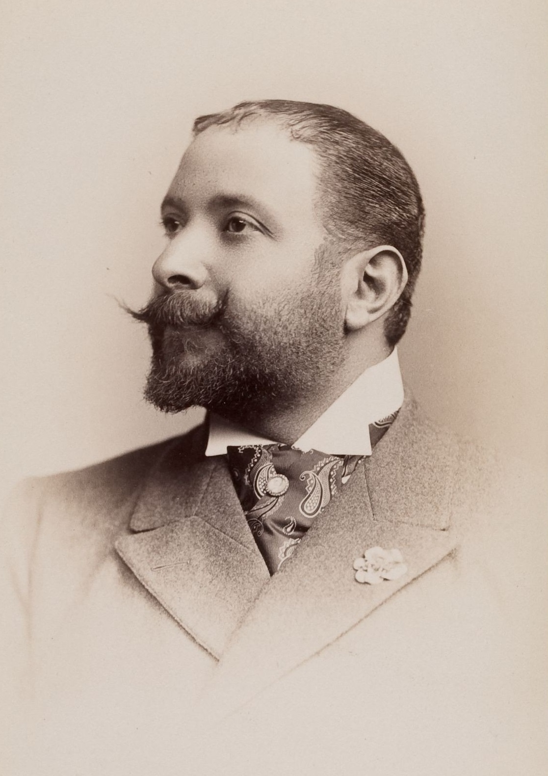 Cabinet card image of Italian baritone singer Mario Ancona (1860-1931). Cropped version. From a collection dated 1918. Note: A similar image in this collection dates the sitting to 1896. TCS 1.477, Harvard Theatre Collection, Harvard University